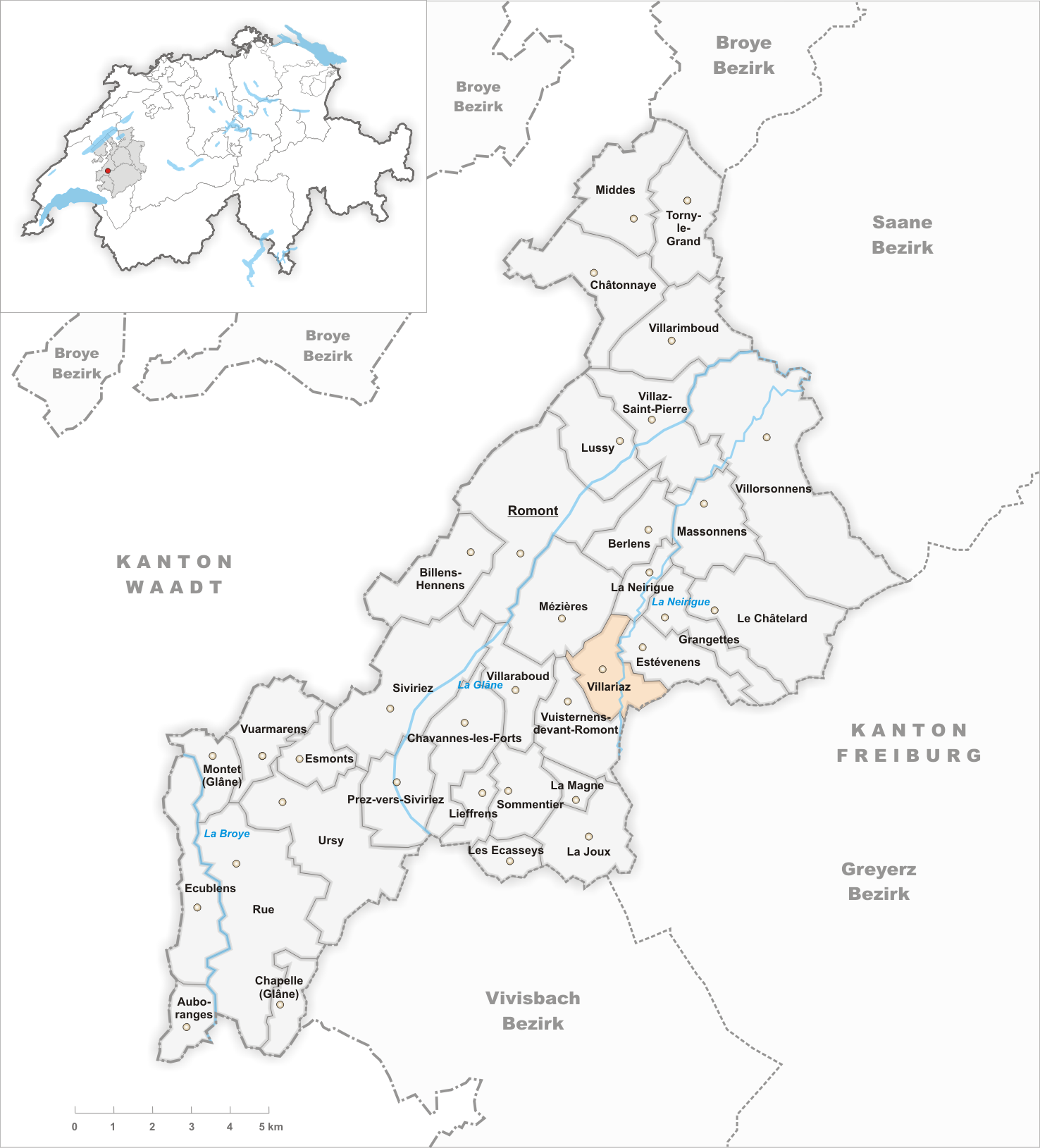 Municipality Villariaz Artist: Tschubby